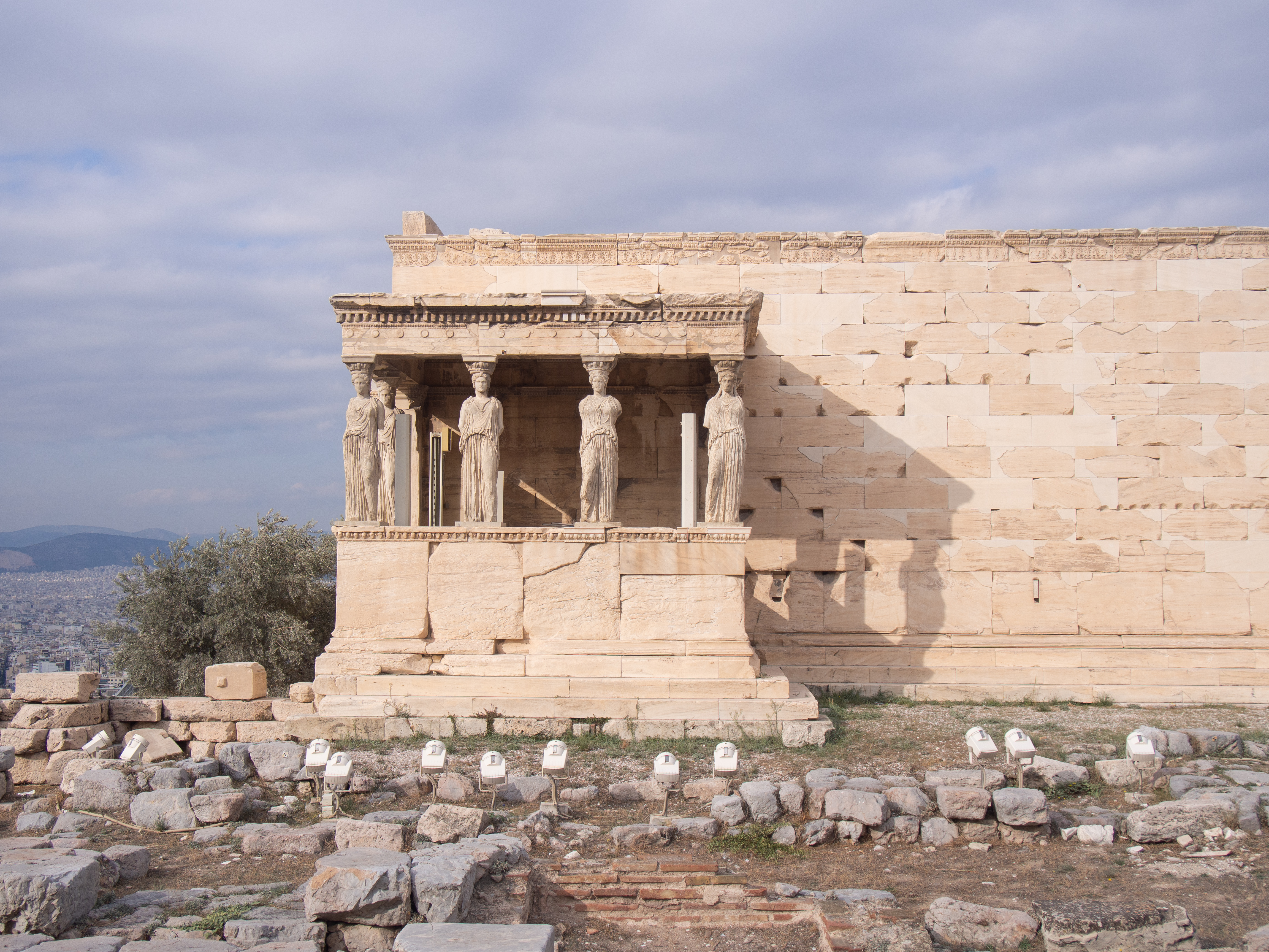 The south facade of the Erechtheum, with the Caryatides.«Ερέχθειο»